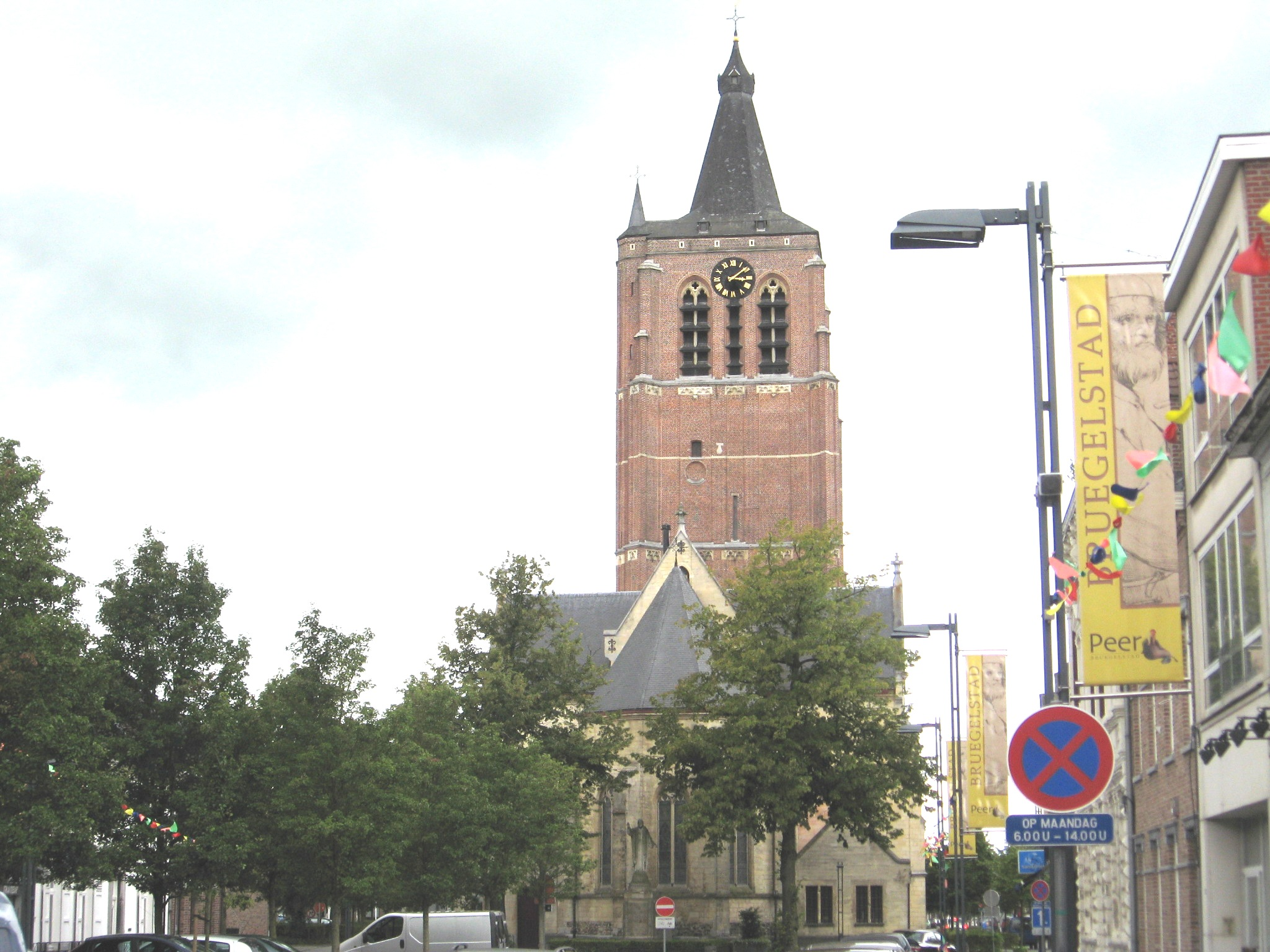 Church of Saint Trudo in Peer, Limburg, Belgium